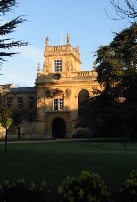 Trinity College, Oxford